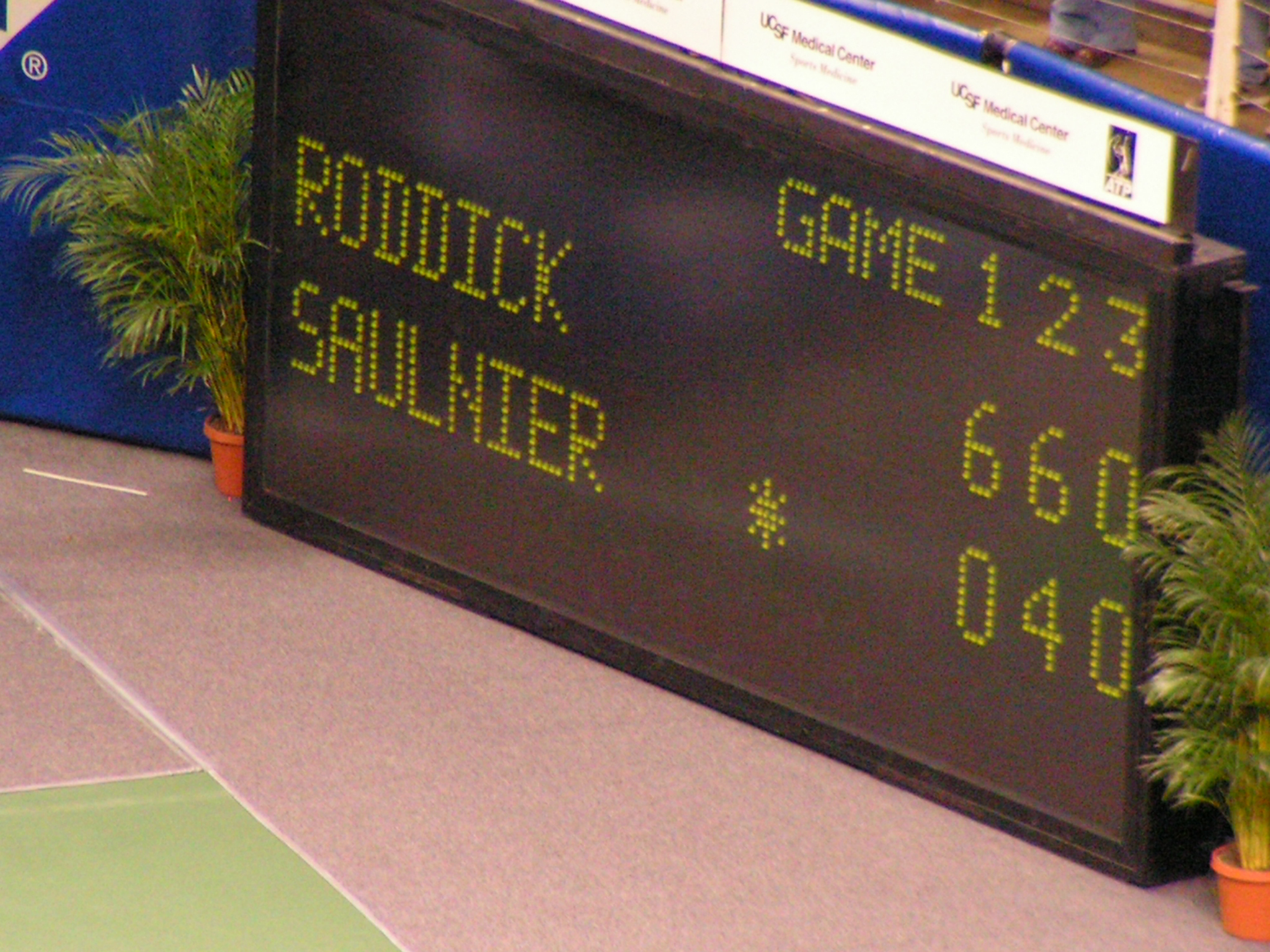 Score during Andy Roddick vs Cyril Saulnier at the start of the third set. A tennis scoreboard. Andy Roddick has won the first two sets.